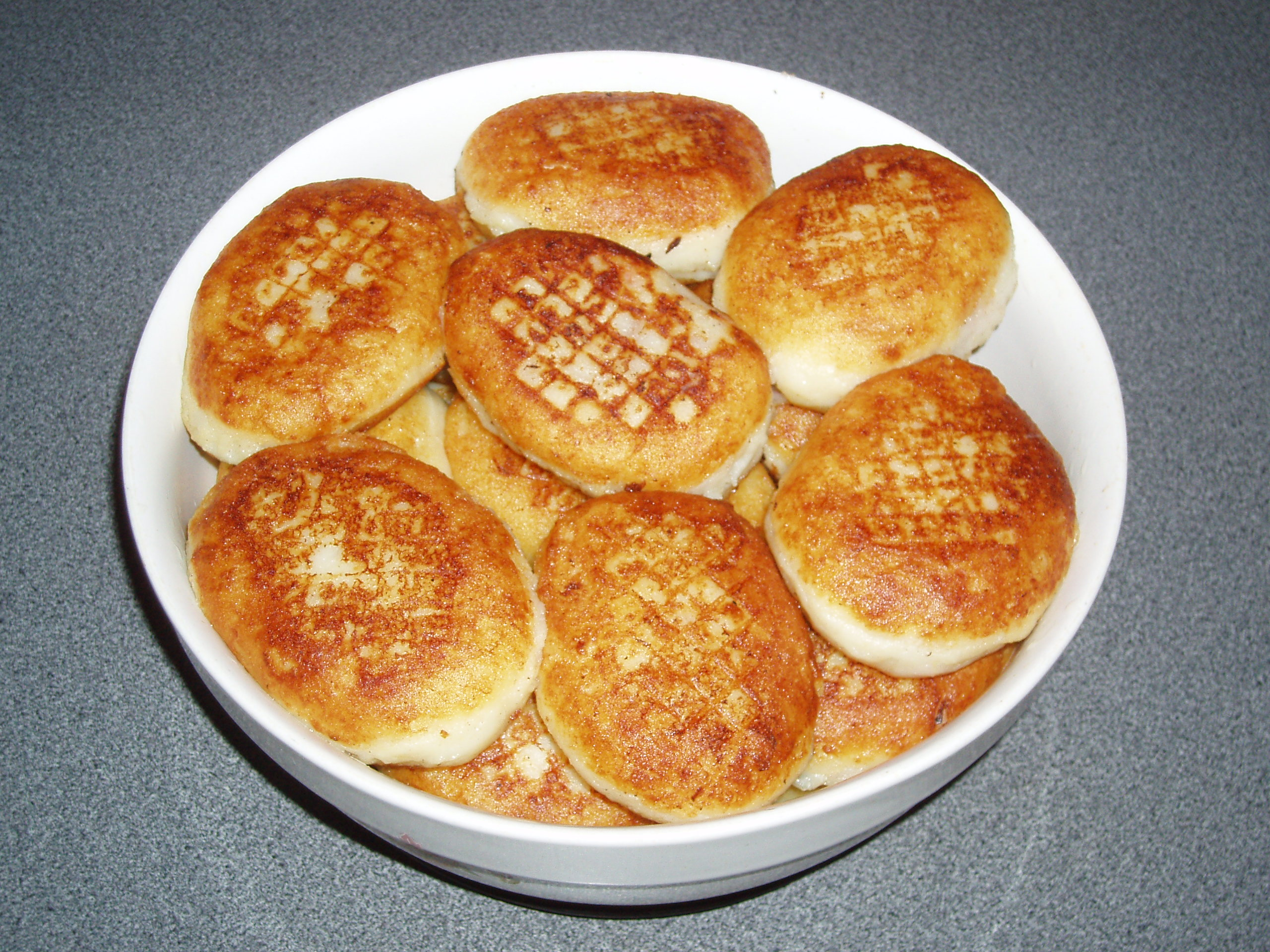 Ukrainian potato zrazy - stuffed potato pancakes